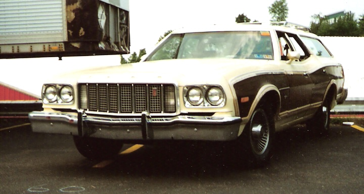 1976 Ford Gran Torino Squire I photographed in Pittsburgh, Pennsylvania in June 2000.